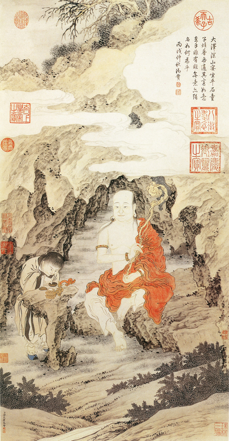 Buddhist Arhat, Jin Tingbiao, Qing Dynasty, China, Palace Museum, Beijing.